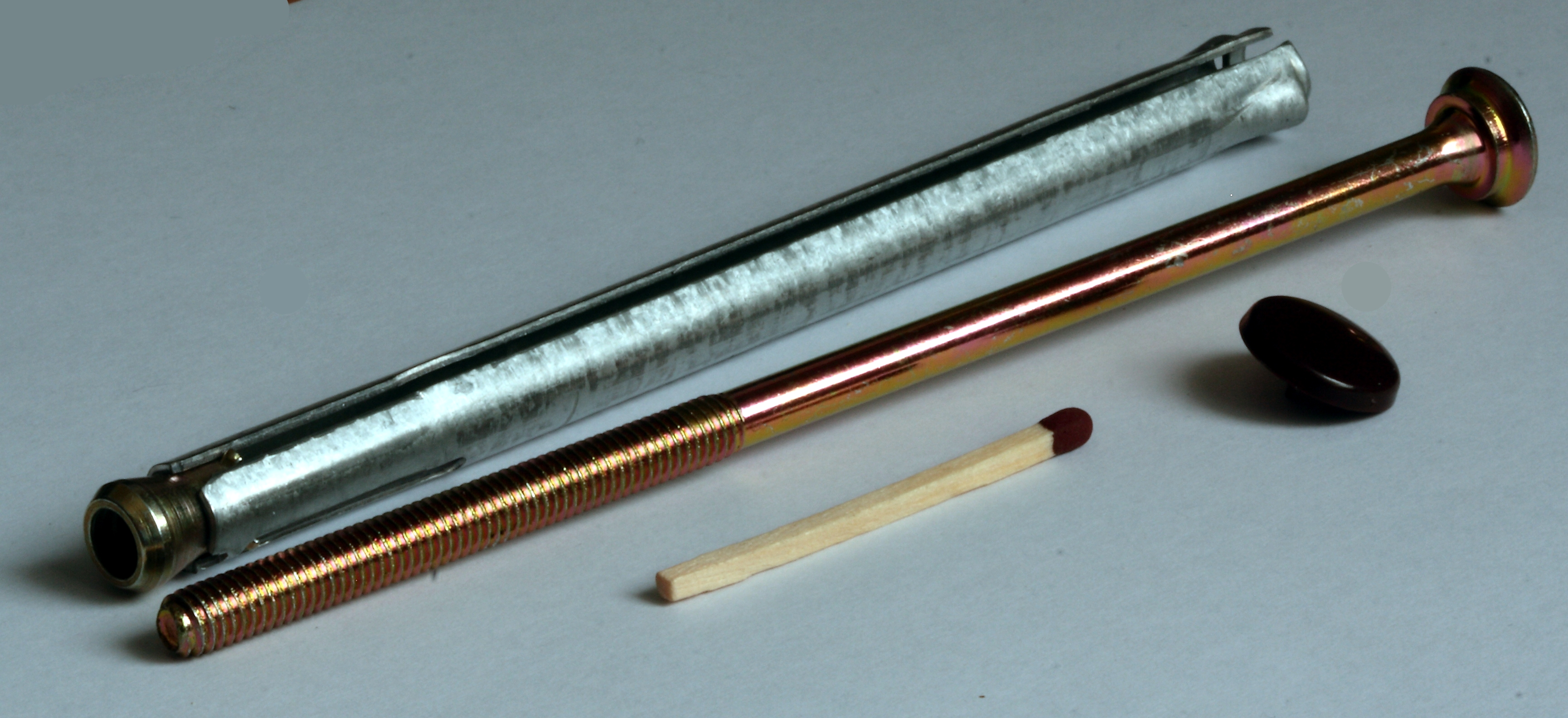 Metal frame fixings F10 M132